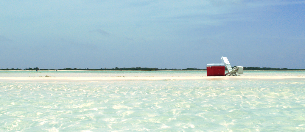 Los Roques Archipelago, Venezuela.